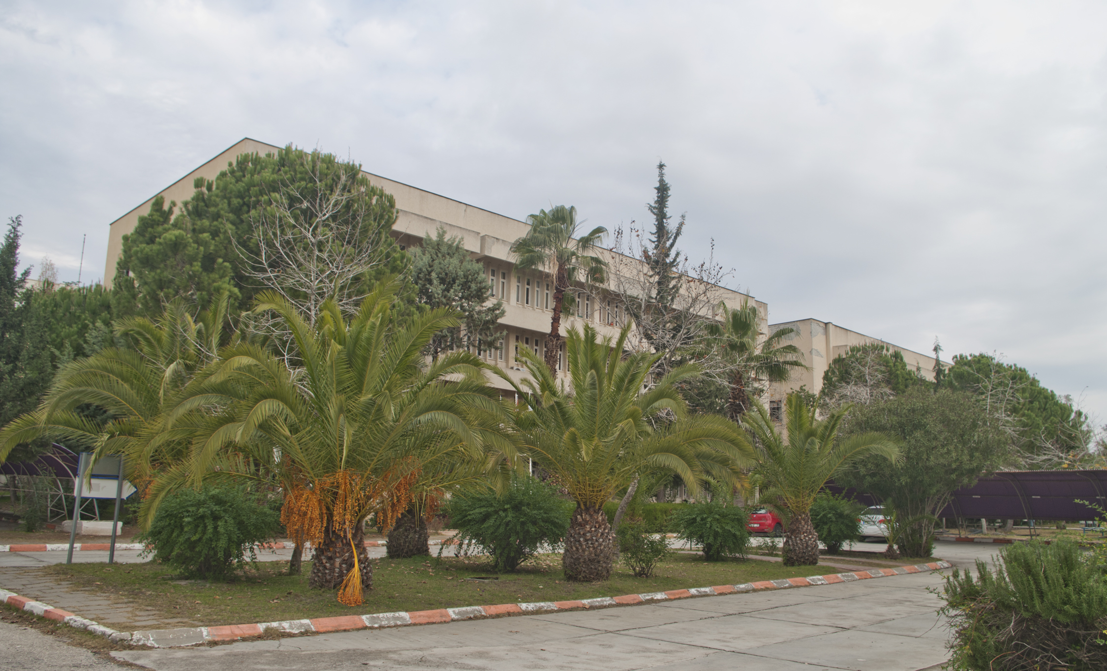 Main building of Faculty of Education, Çukurova University. Balcalı, Adana - Turkey.